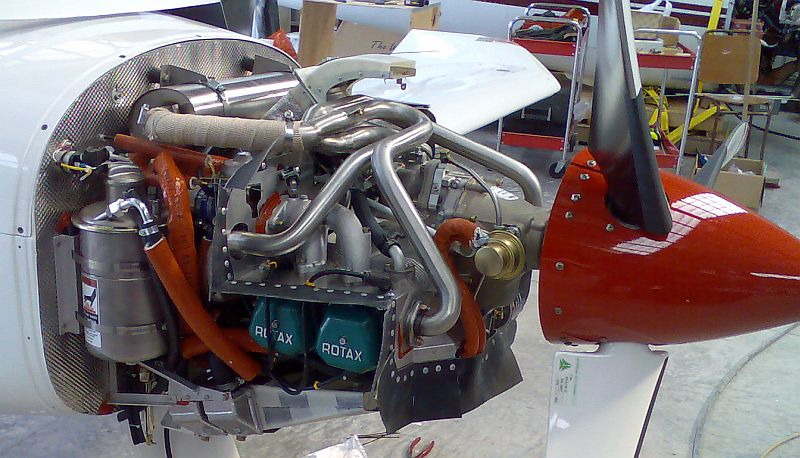 A Rotax 912s Engine installed in a DynAero MCR01 'Club sport' aircraft.